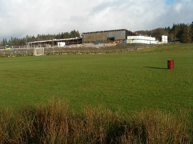 New school from the shinty pitch Construction of the new Lochgilphead Joint Campus continues apace; this view also shows the shinty pitch in the foreground.